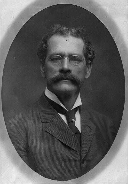 Albert Estopinal, 1845-1919, head and shoulders portrait, facing front. Congressman from Louisiana.